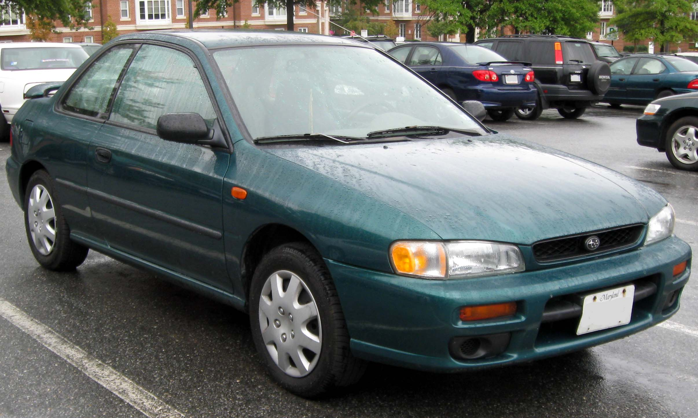 1997-2001 Subaru Impreza photographed in College Park, Maryland, USA.